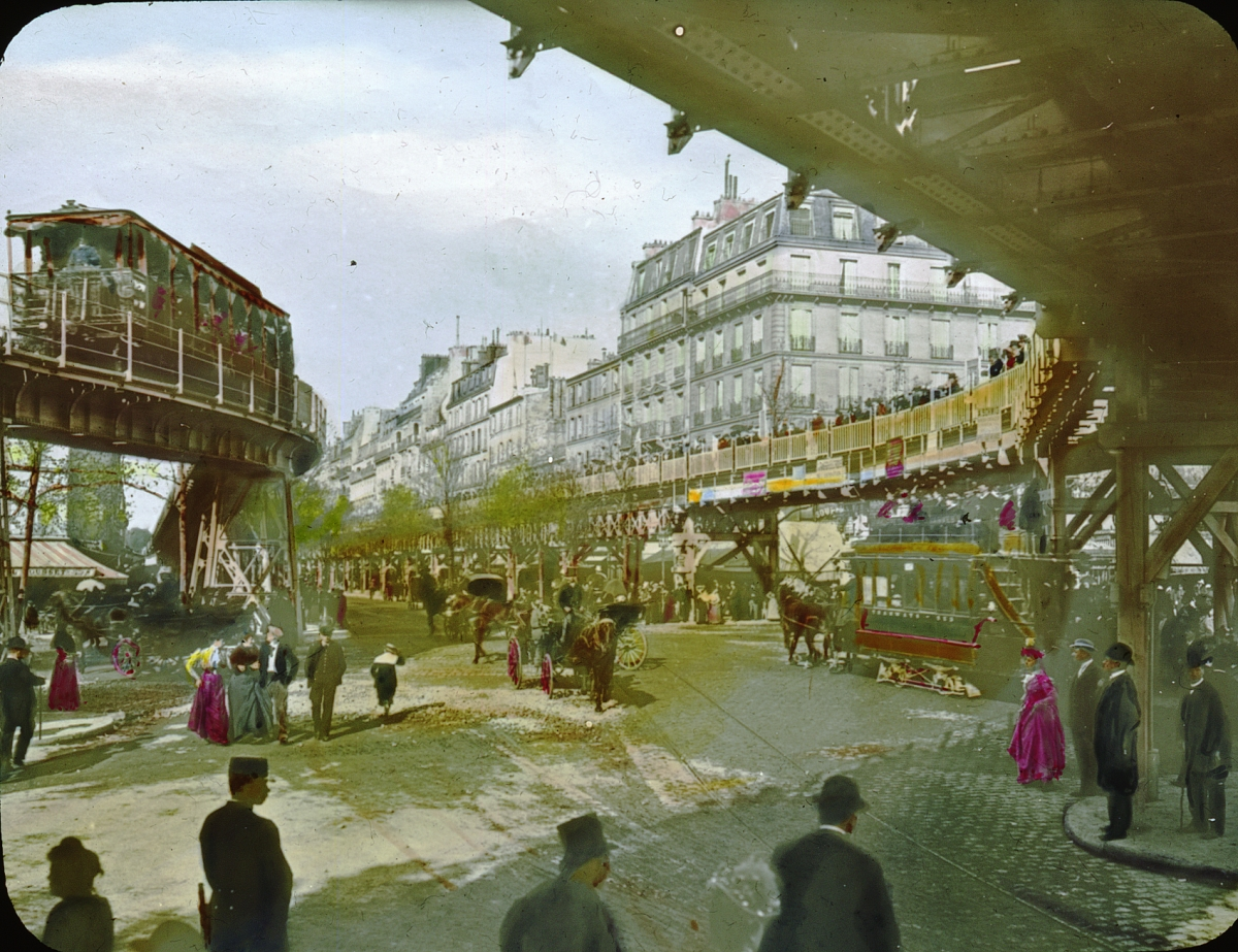 Original description: Paris Exposition: rolling platform, Paris, France, 1900. The Rolling Platform which is thirty feet above head with steel rails supported by scaffolding. Brooklyn Museum Archives.